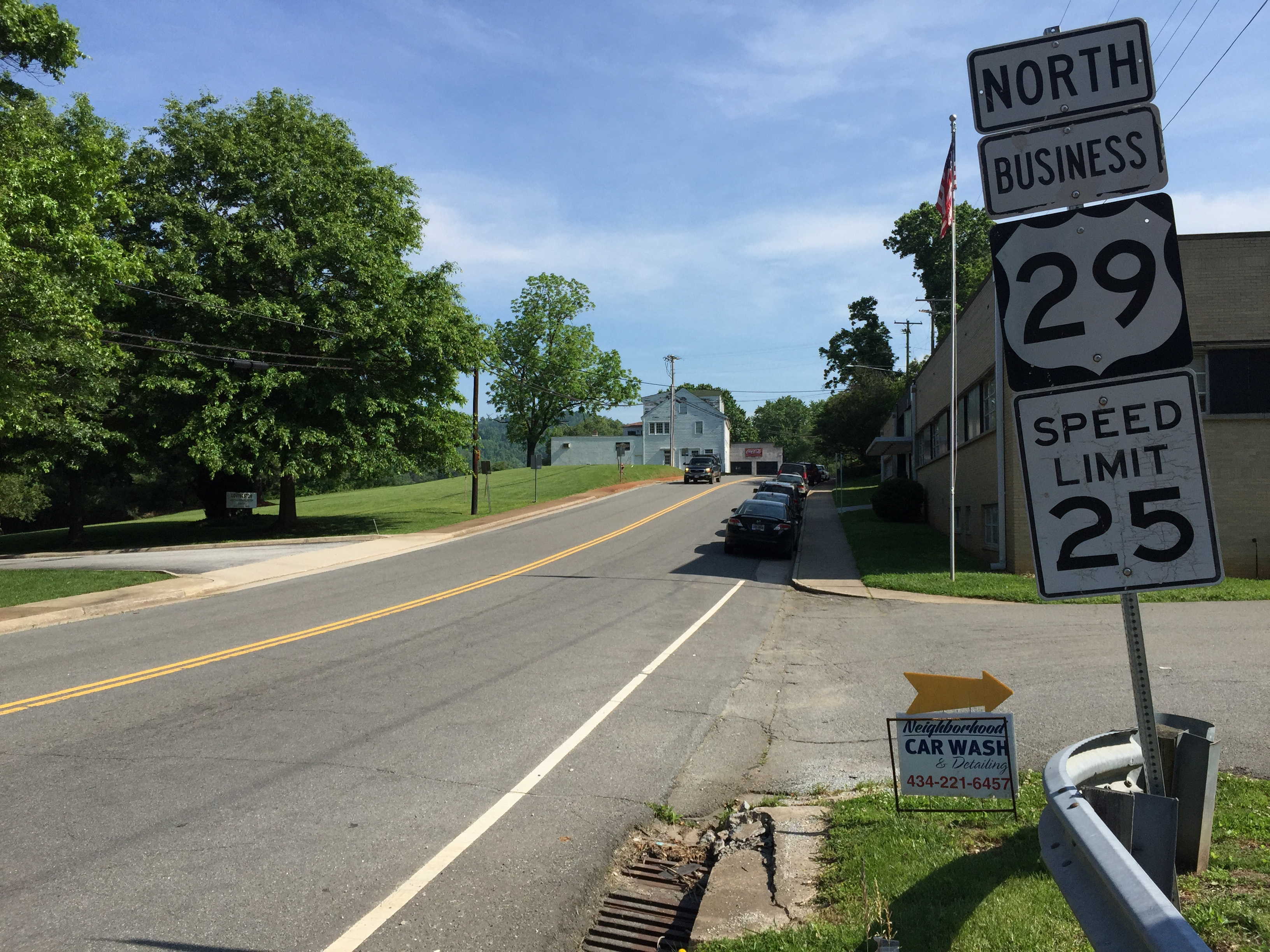 View north along U.S. Route 29 Business (Front Street) just north of the junction with Virginia State Route 56 (James River Road) in Lovingston, Nelson County, Virginia